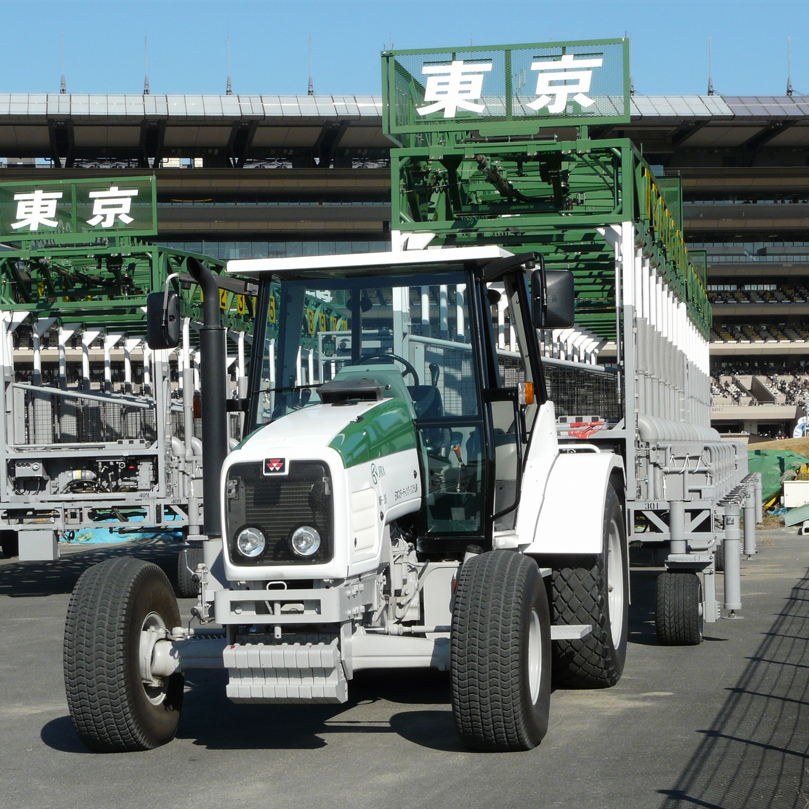 Tokyo-Racecourse-02